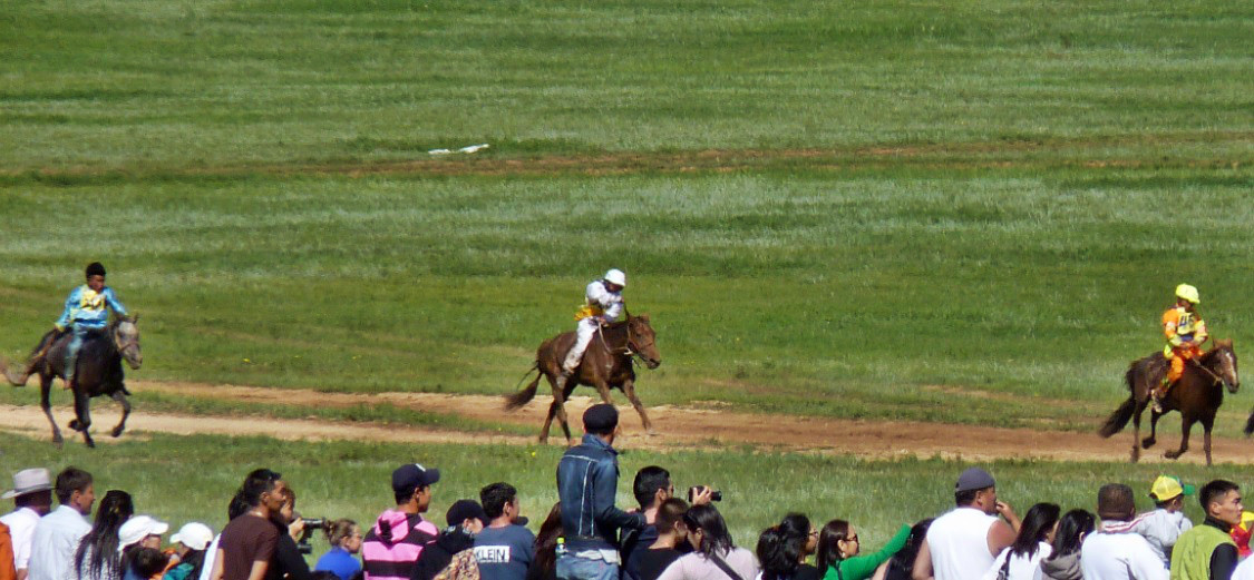 During horse racing in Mongolian Naadam festival, Ulsiin naadmaar Soyolon nasnii moridiin uraldaan, 100-150m zainaas tataj avsan zurag.